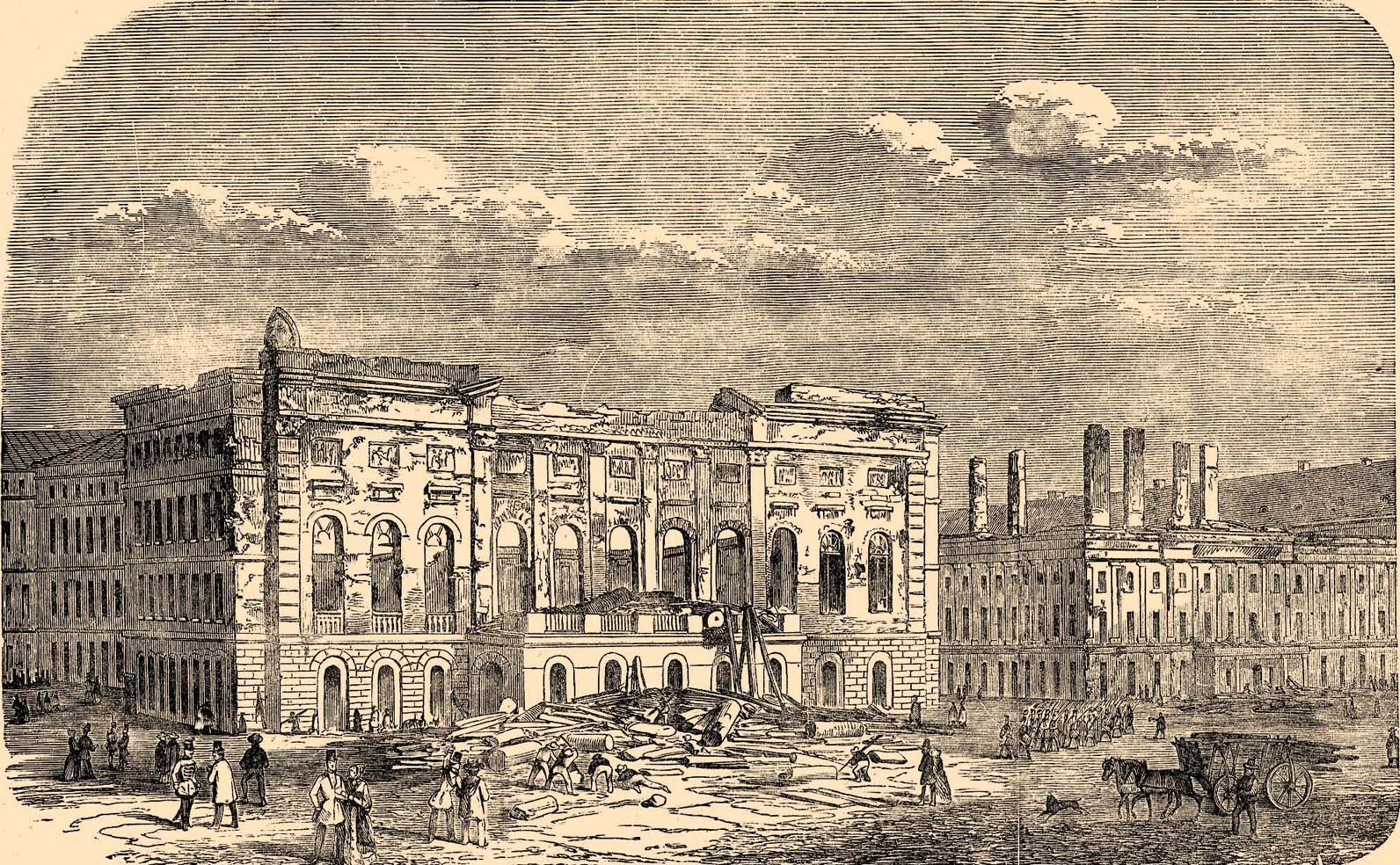 The damages caused by the bombardment of Pest by the imperials: the Vigadó